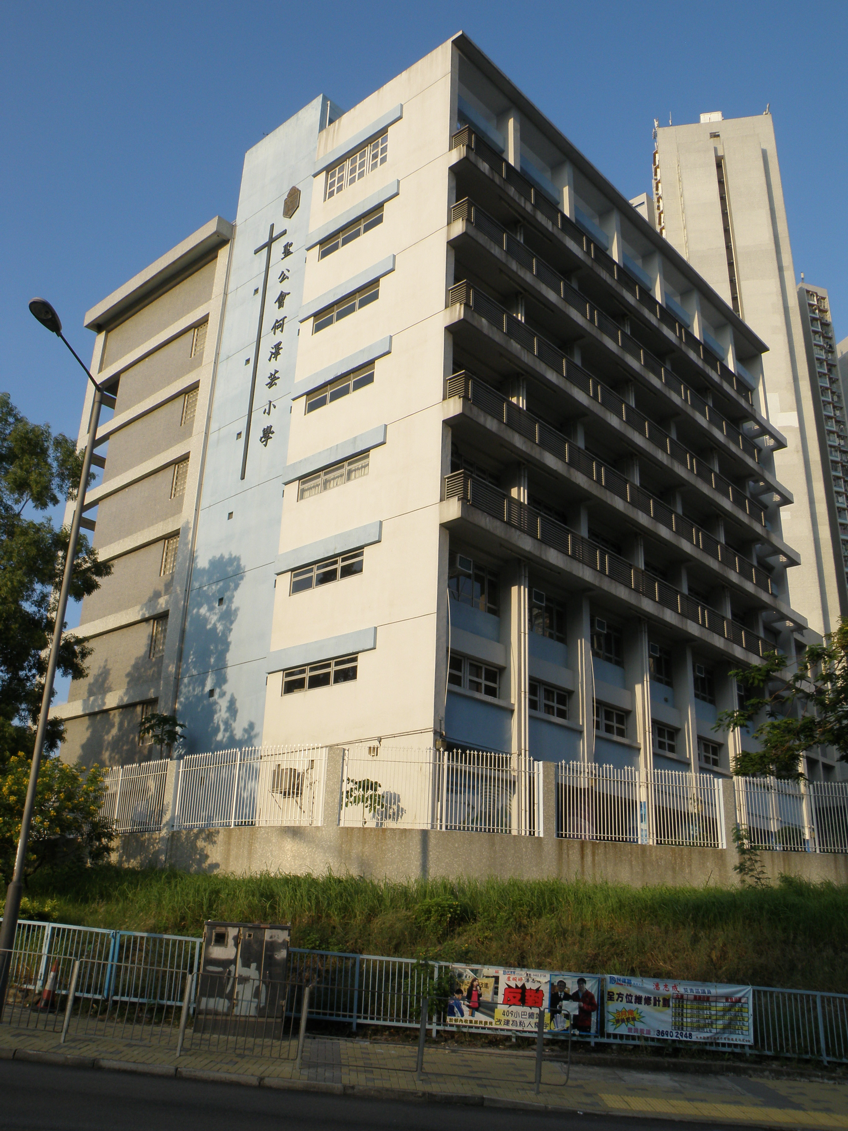 S.K.H. Ho Chak Wan Primary School in Tsing Yi, Hong Kong.